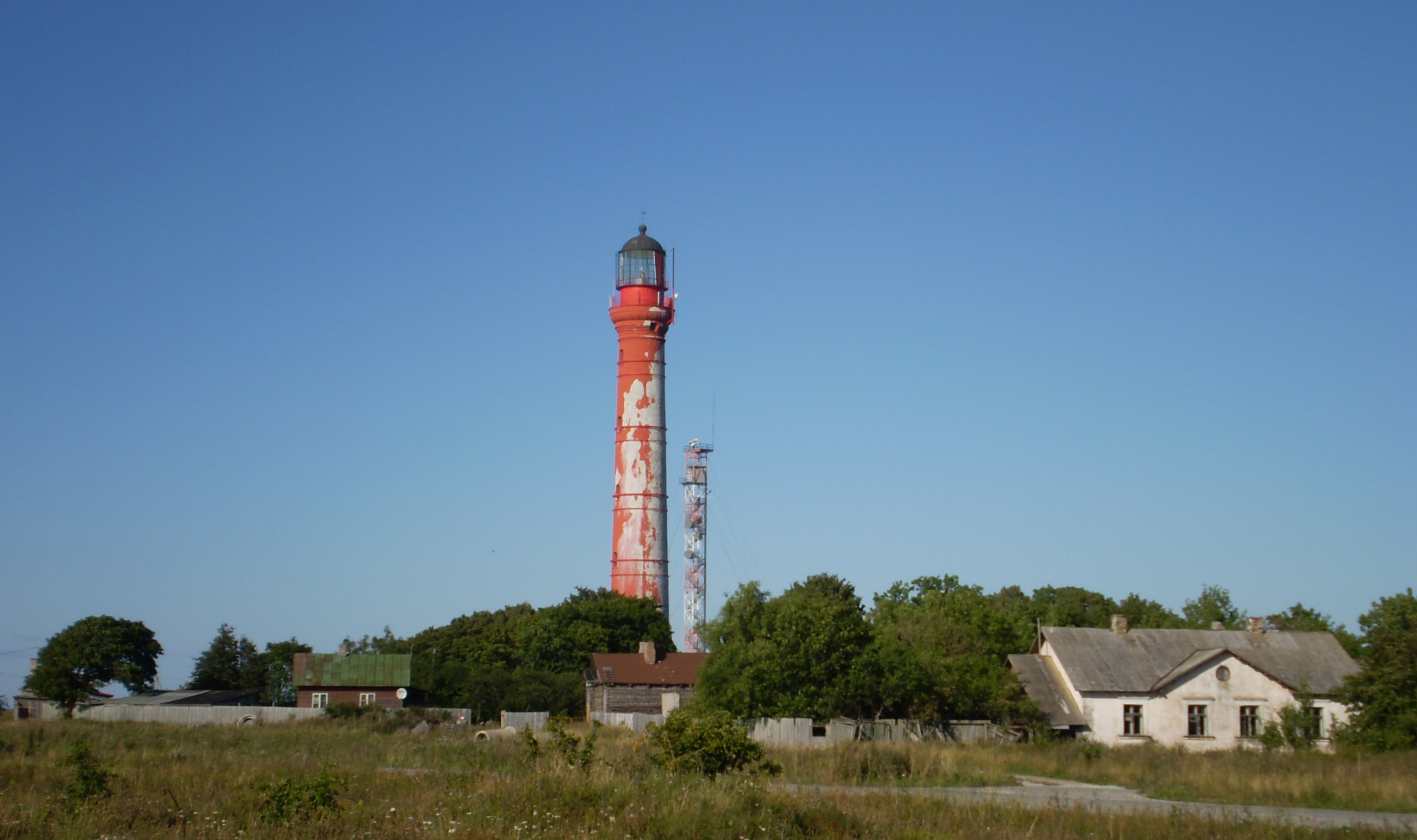 Pakri lighthouse in Paldiski, Estonia.